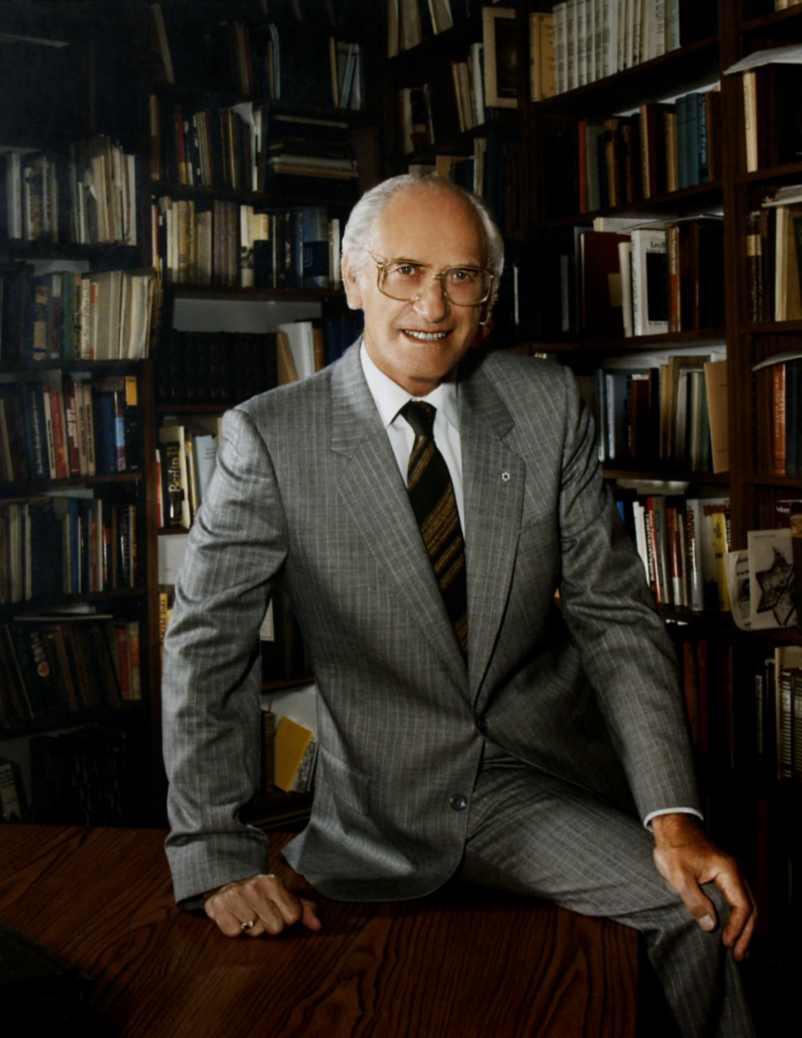 Picture of Wolf Gunther Plaut, CC, O.Ont